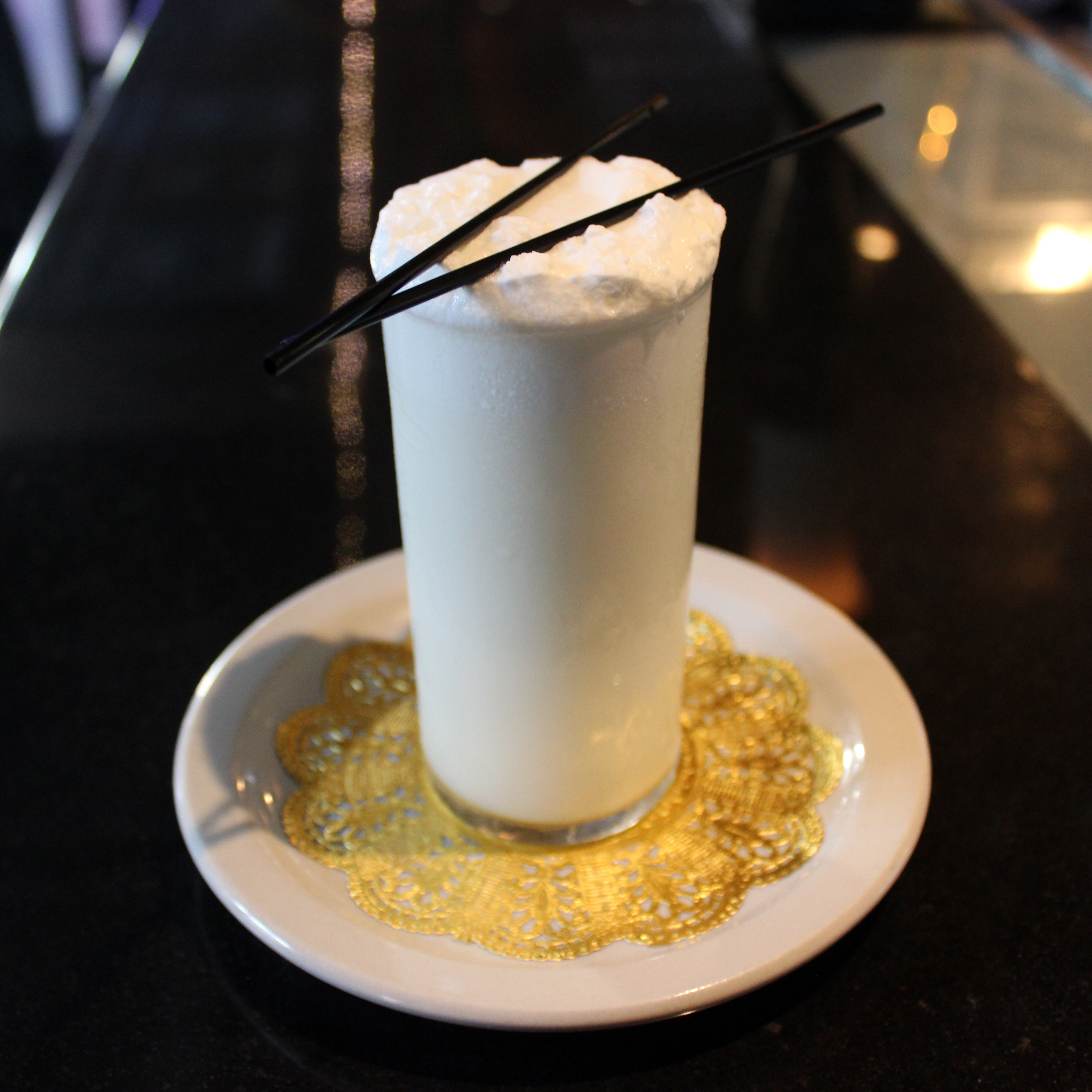 A Ramos Gin Fizz at the Bourbon O Bar, New Orleans